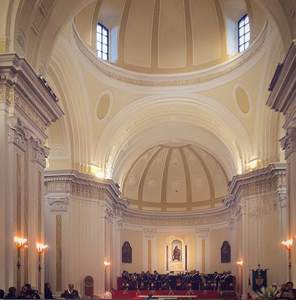 Interior of the Cathedral of Marsico Nuovo, today with a single nave.